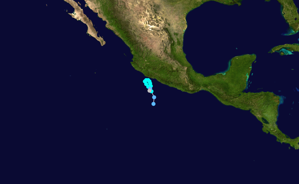 Tropical Storm Ignacio (1991) track. Uses the color scheme from the Saffir-Simpson Hurricane Scale.